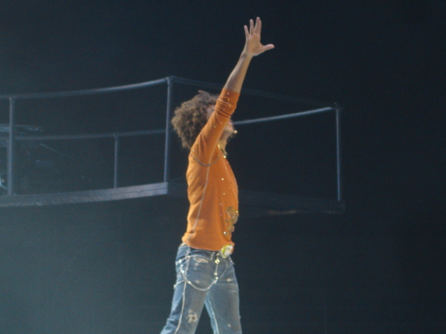 High School Musical Cast Corbin Bleu